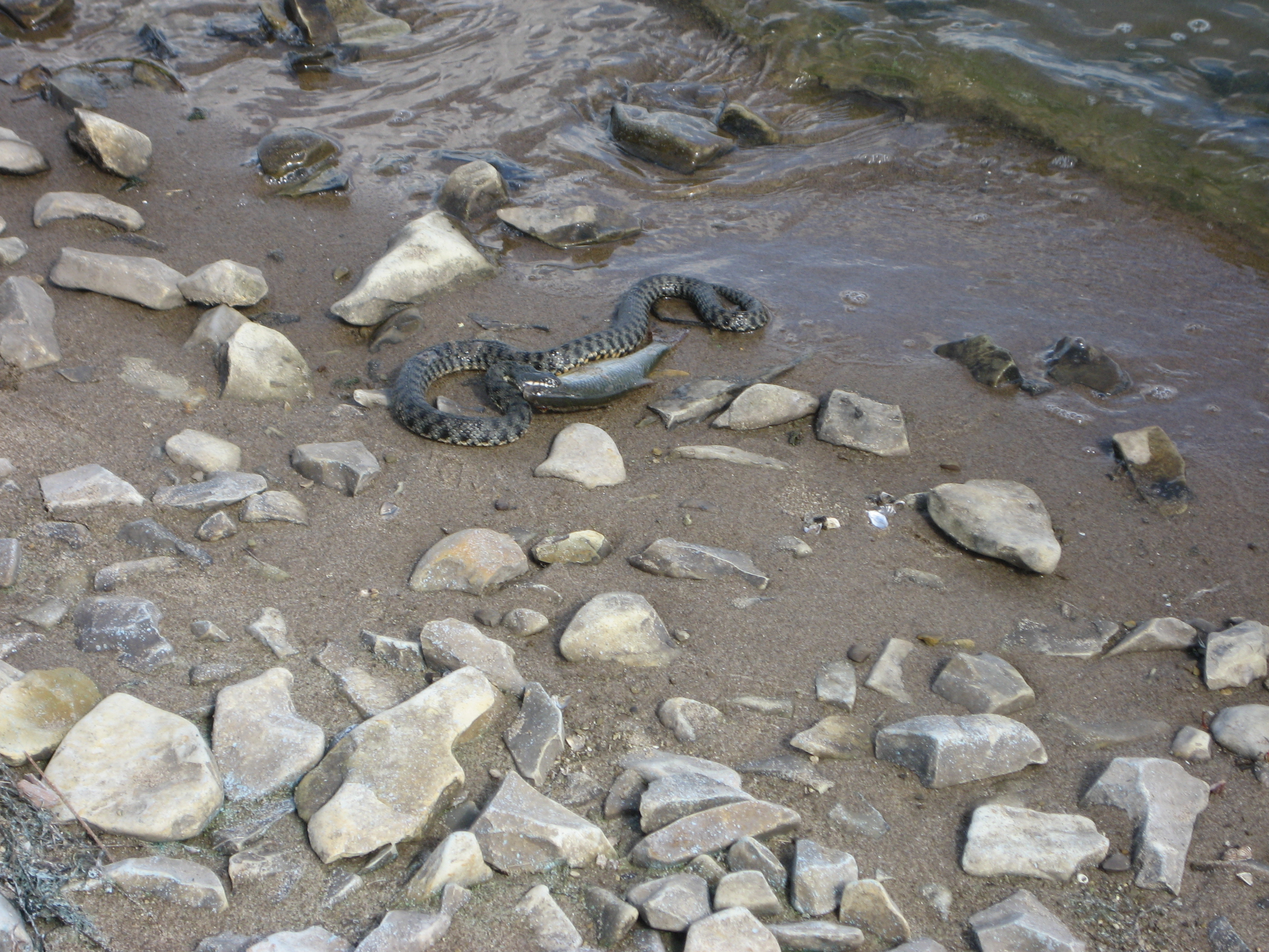 A snake eating fish on the river Tershka bank (near Usovka, Saratov region)